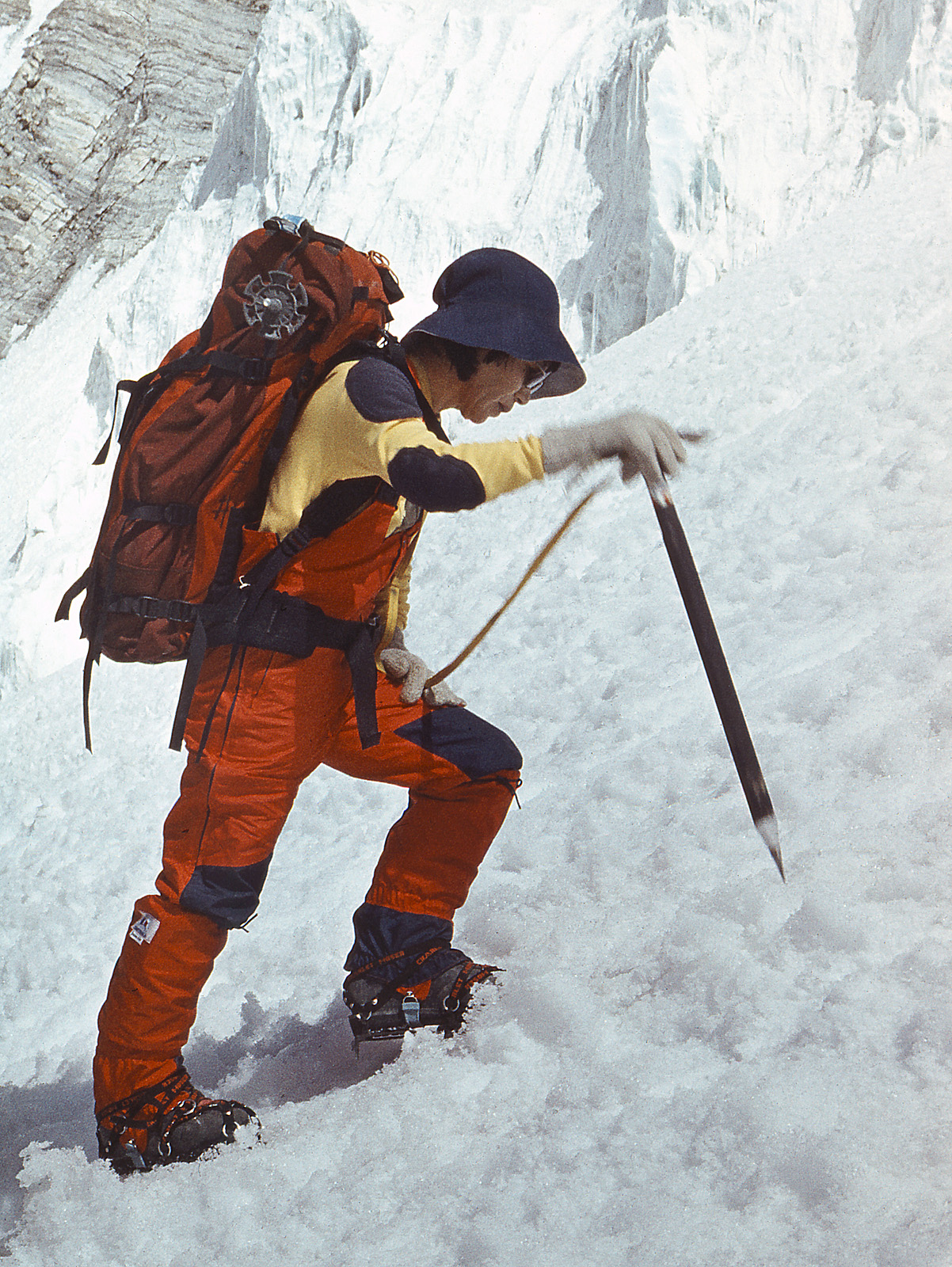 Junko Tabei in 1985 at Communism Peak (now known as Ismoil Somoni Peak).